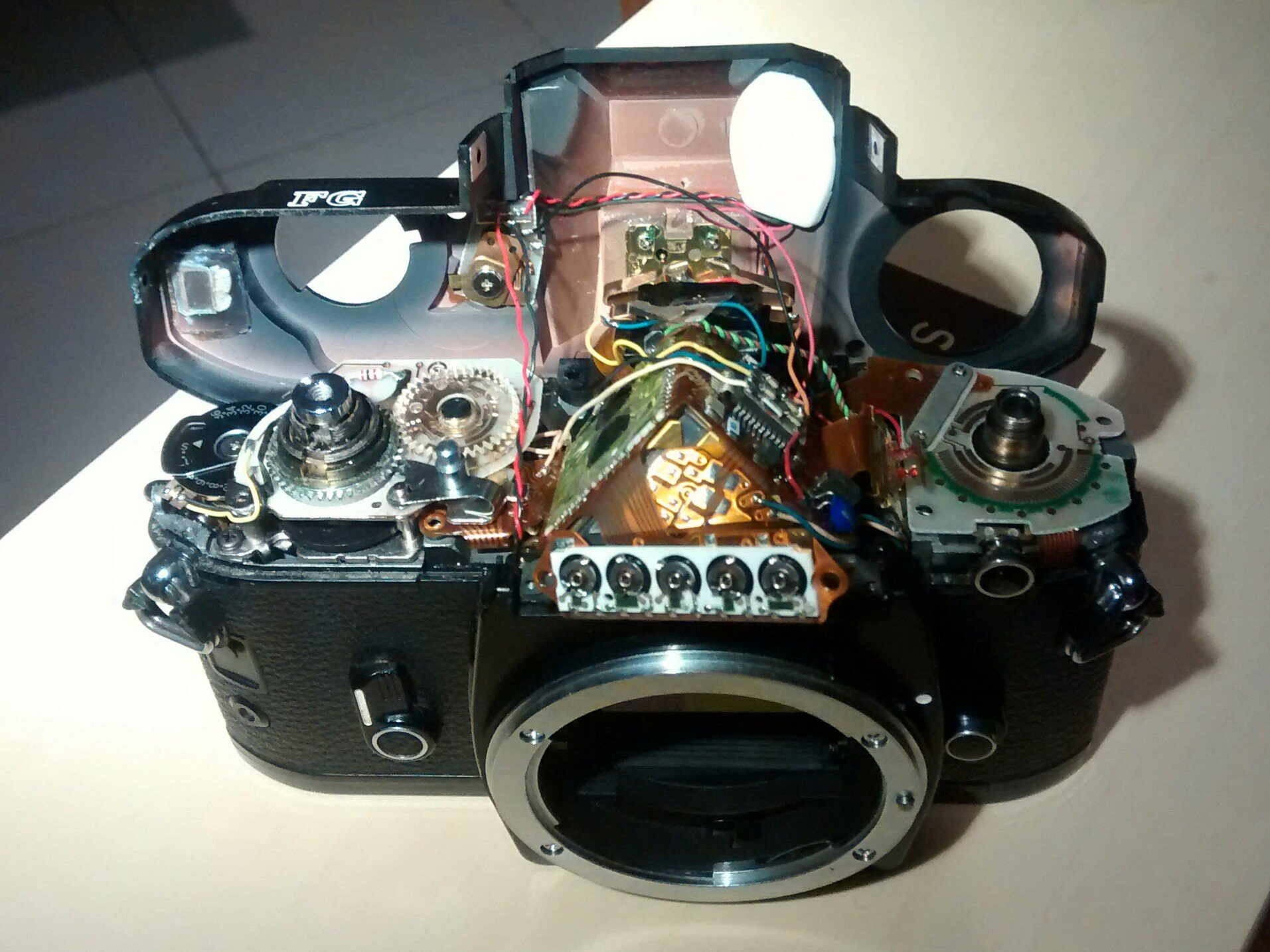 Nikon FG - Inside